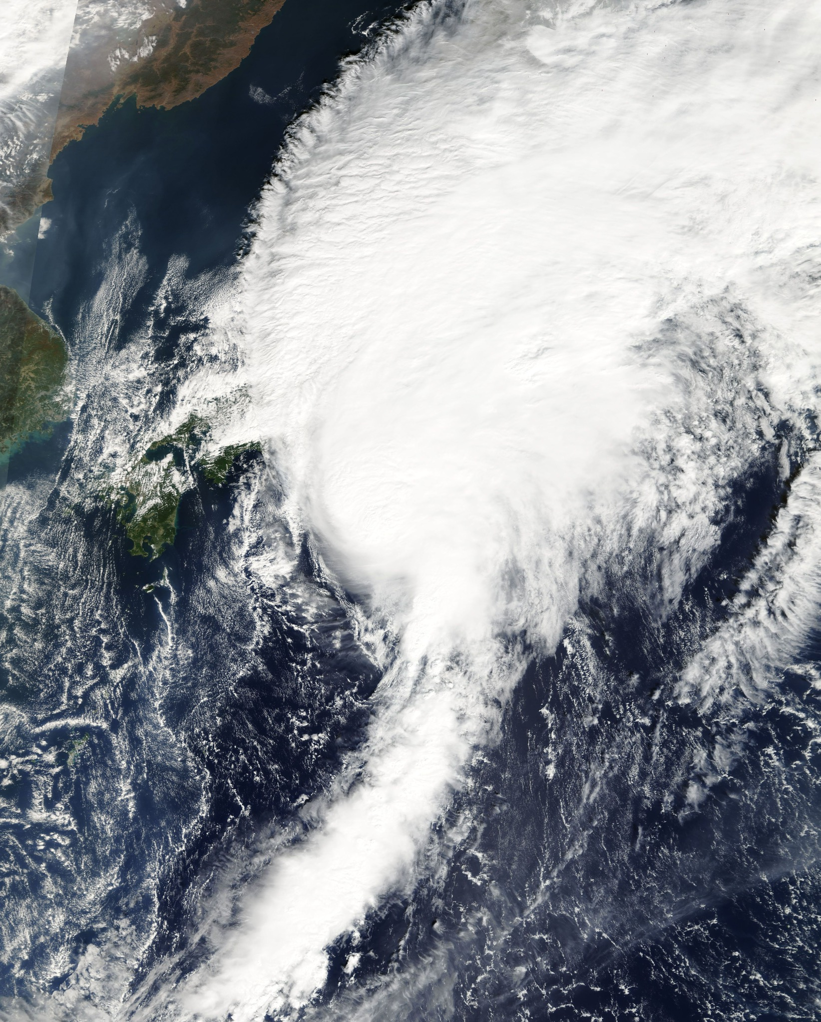 Severe Tropical Storm Faxai on October 27